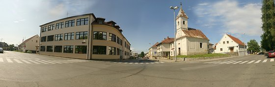 Opcina Kriz Town KRIZ (center) Photo taken by Boris Kržić at INA gas station